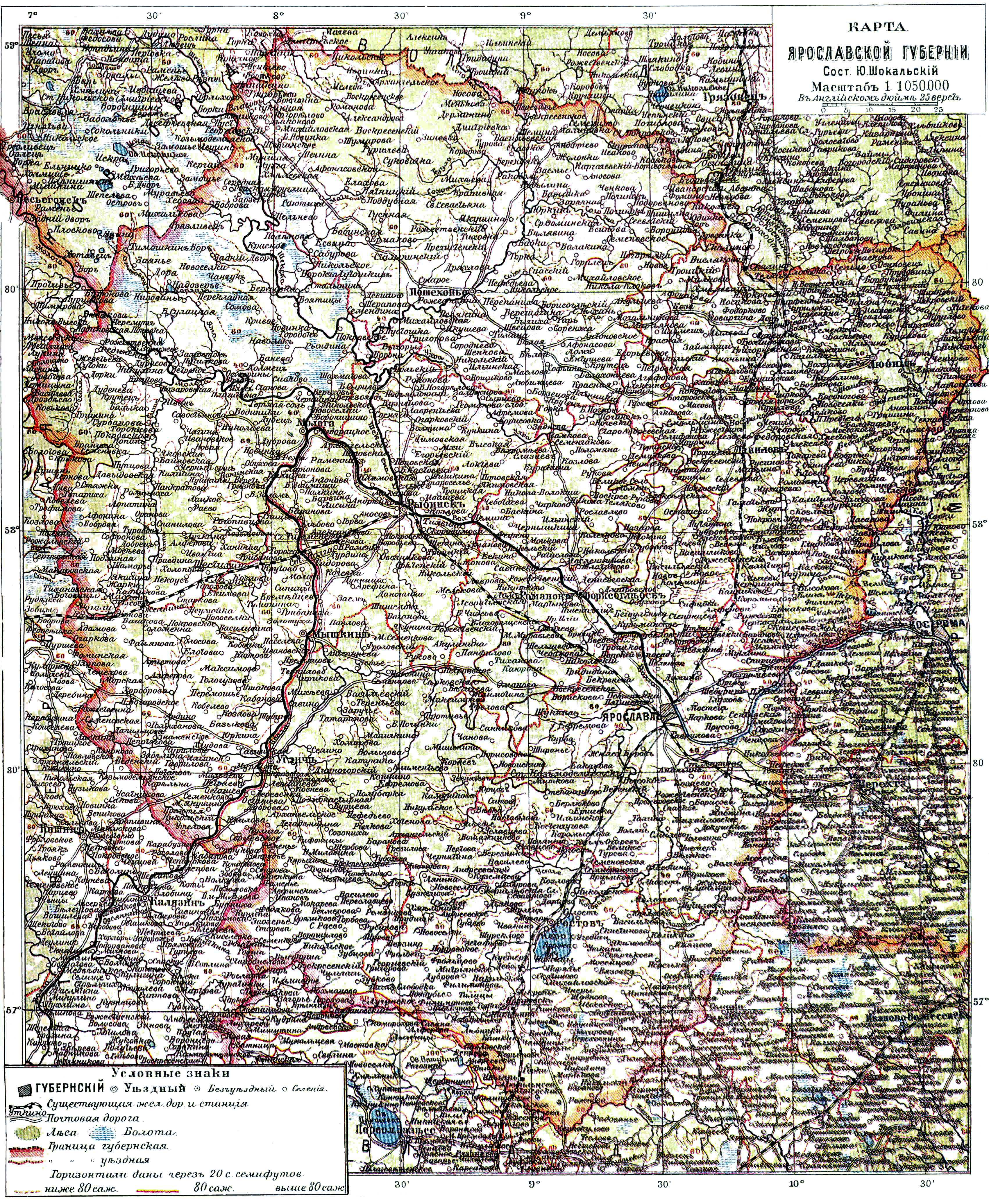 Illustration from Brockhaus and Efron Encyclopedic Dictionary (1890—1907). Yaroslavl Governorate